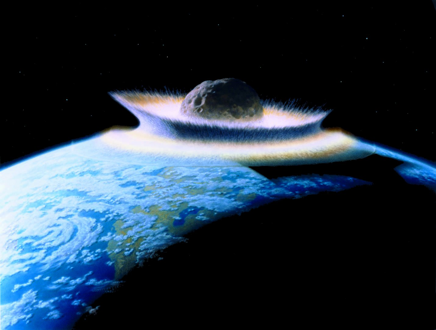 Artist's impression of a 1000km-diameter planetoid hitting a young Earth. Artist's description: "A planetoid plows onto the primordial Earth, during the eons of time when conditions were ripe for the development of life. It is possible that life of kinds unknown to us appeared repeatedly only to be destroyed in collisions like this one which could 'rework' the entire surface. Fortunately the average size of debris declined sharply through geologic time, but the supply of wayward rocks a few kilometers in size is by no means exhausted."